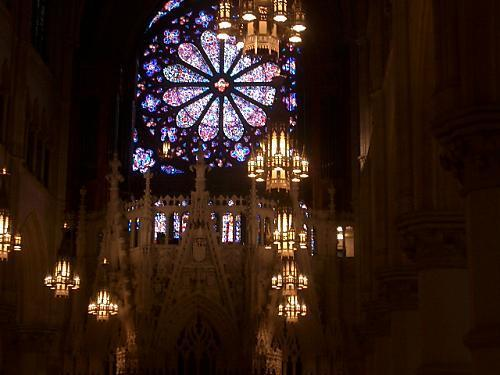 Inside view of the Cathedral Basilica of the Sacred Heart, Newark, New Jersey